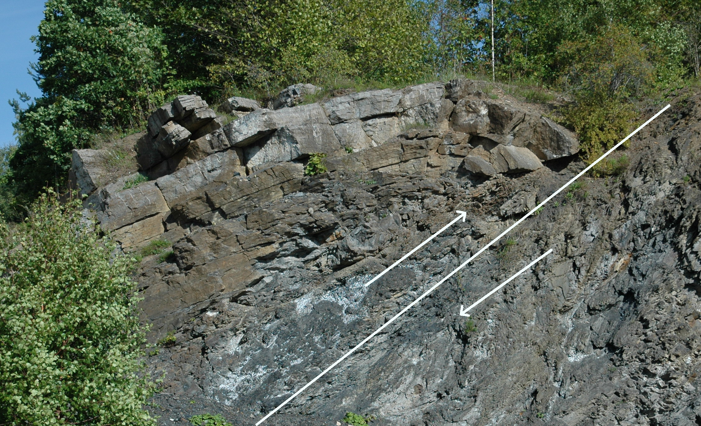 A fault at Bjerkaas, Norway, a part of the Oslo Region. Older rock to the left and above younger rock. Line and arrows indicating fault line and relative movement. My own photograph, Kjetil Lenes.